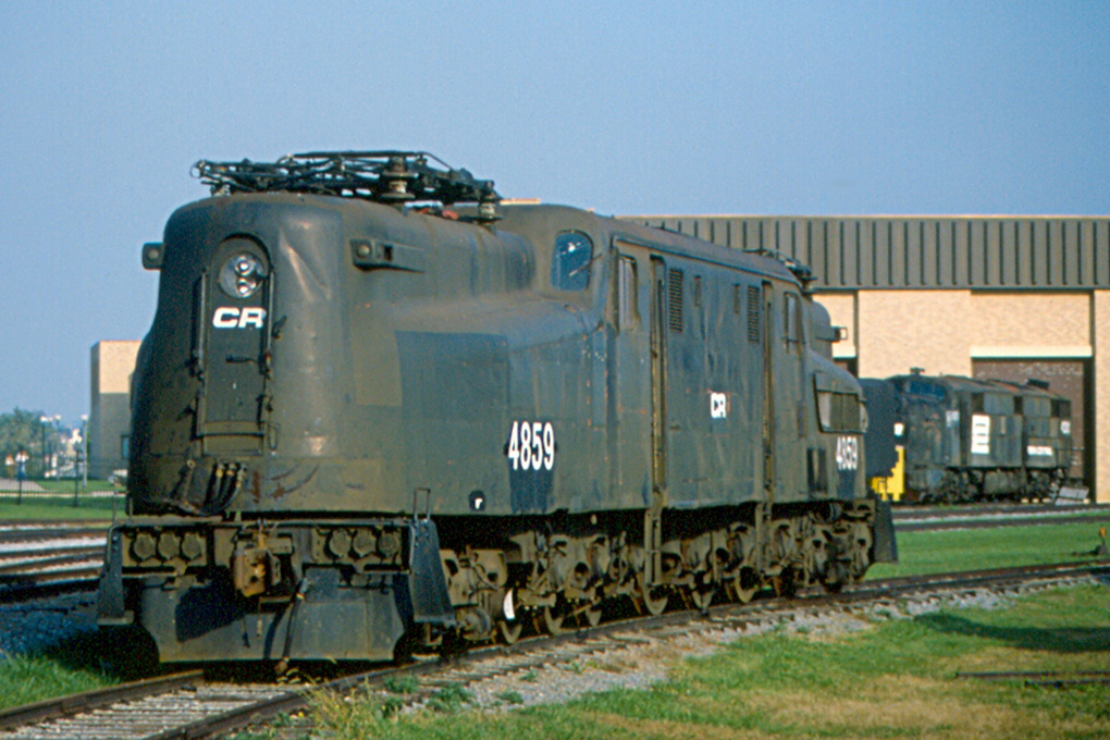 PRR 4859 at the Railroad Museum of Pennsylvania in Strasburg, Pennsylvania, still in its Conrail paint scheme.